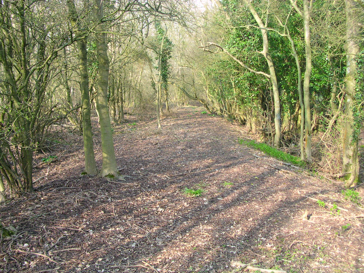 Part of the Nore Track on the Nore at Wolstonbury Hill, West Sussex, England. Probably a Roman road.